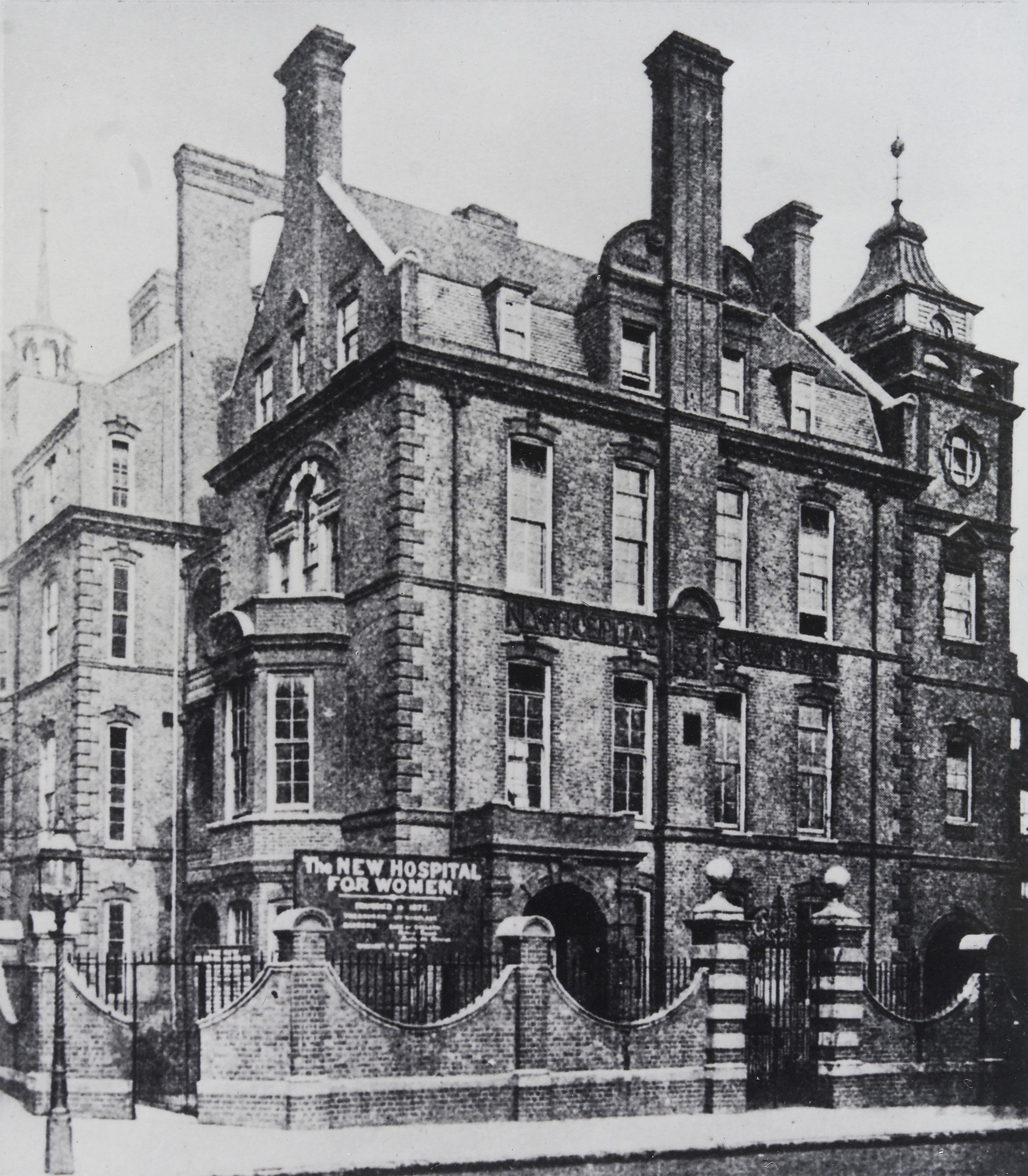 Photograph showing The New Hospital for Women, Euston Road, London, which opened in 1890 with 42 beds. (It had been founded by the physician, Elizabeth Garrett Anderson (1836-1917) above a dispensary in Marylebone and was the first hospital in Britain with only medical women appointed to its staff. In 1918 it became the Elizabeth Garrett Anderson Hospital and continued to have only female medical staff until its absorption into a larger hospital in the 1980s.) Wellcome Images Keywords: Gynaecology; Architecture as Topic; Hospital; Victorian; London; Architecture; Hospitals; Women